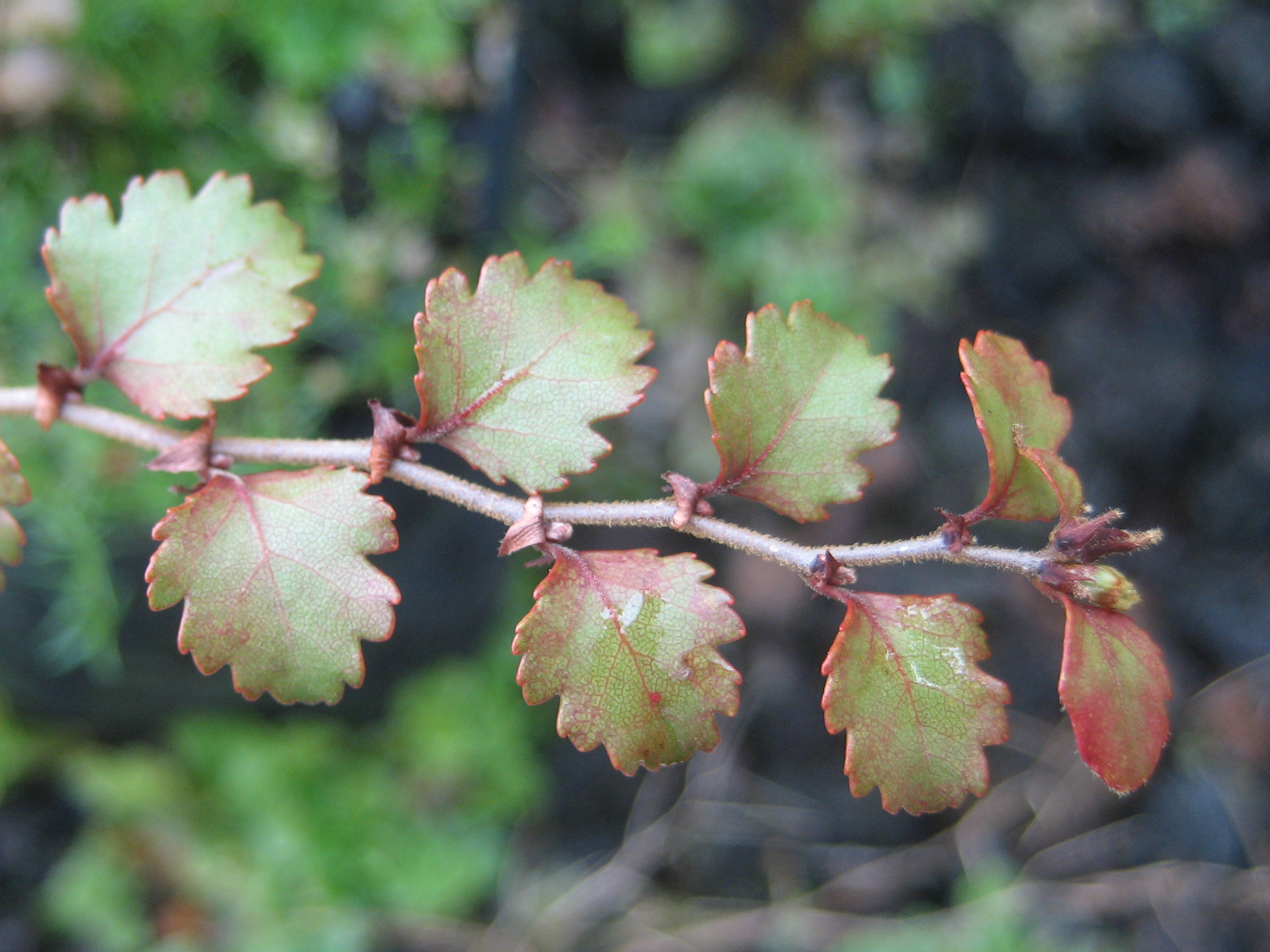 Red beech Nothofagus fusca, foliage